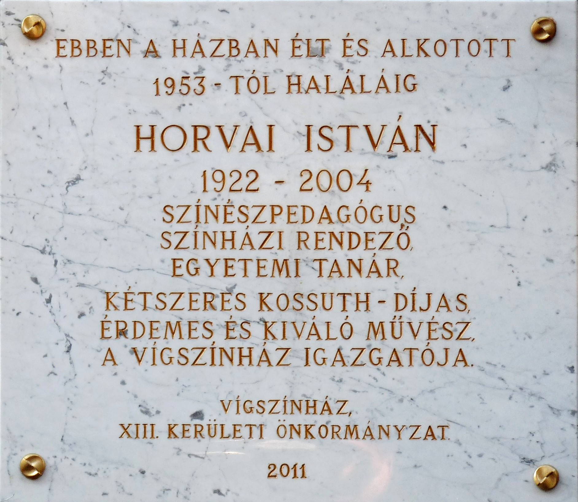 Commemorative plaque to Mr.István Horvai (Szeged, December 15, 1922 – Budapest, June 28, 2004) twice Kossuth Prize-winning Hungarian producer, theater director and professor. It was affixed to the wall of his former home on December 16, 2011. (Budapest, District XIII, Tátra Street Nr 12/a)